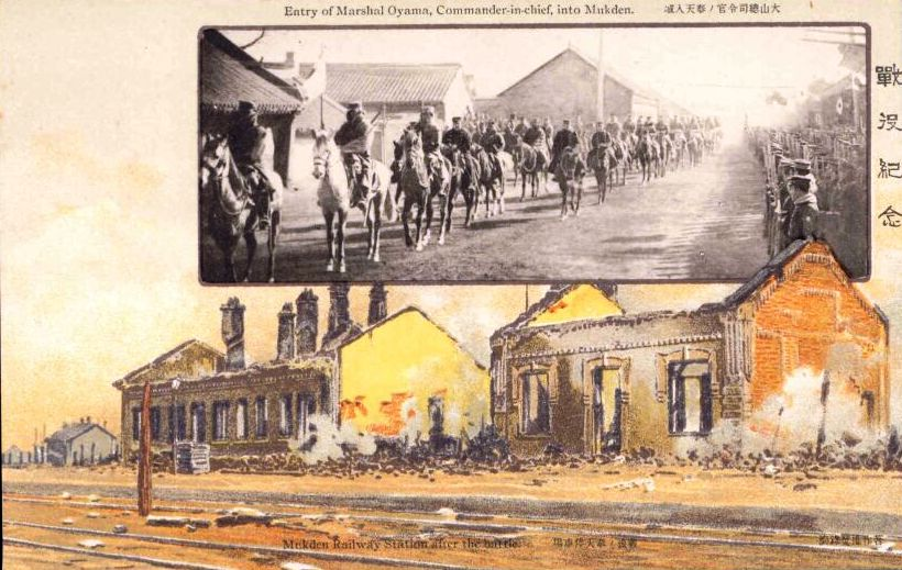 Japanese postcard depicting the Battle of Mukden in the Russo-Japanese War of 1904-1905. Published 1905.10.15 by the Japanese Ministry of Communication.